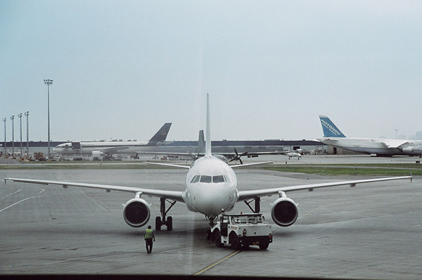 An Air Canada Airbus A319 in the foreground, Apron II in the background, showcasing an Antonov 124.